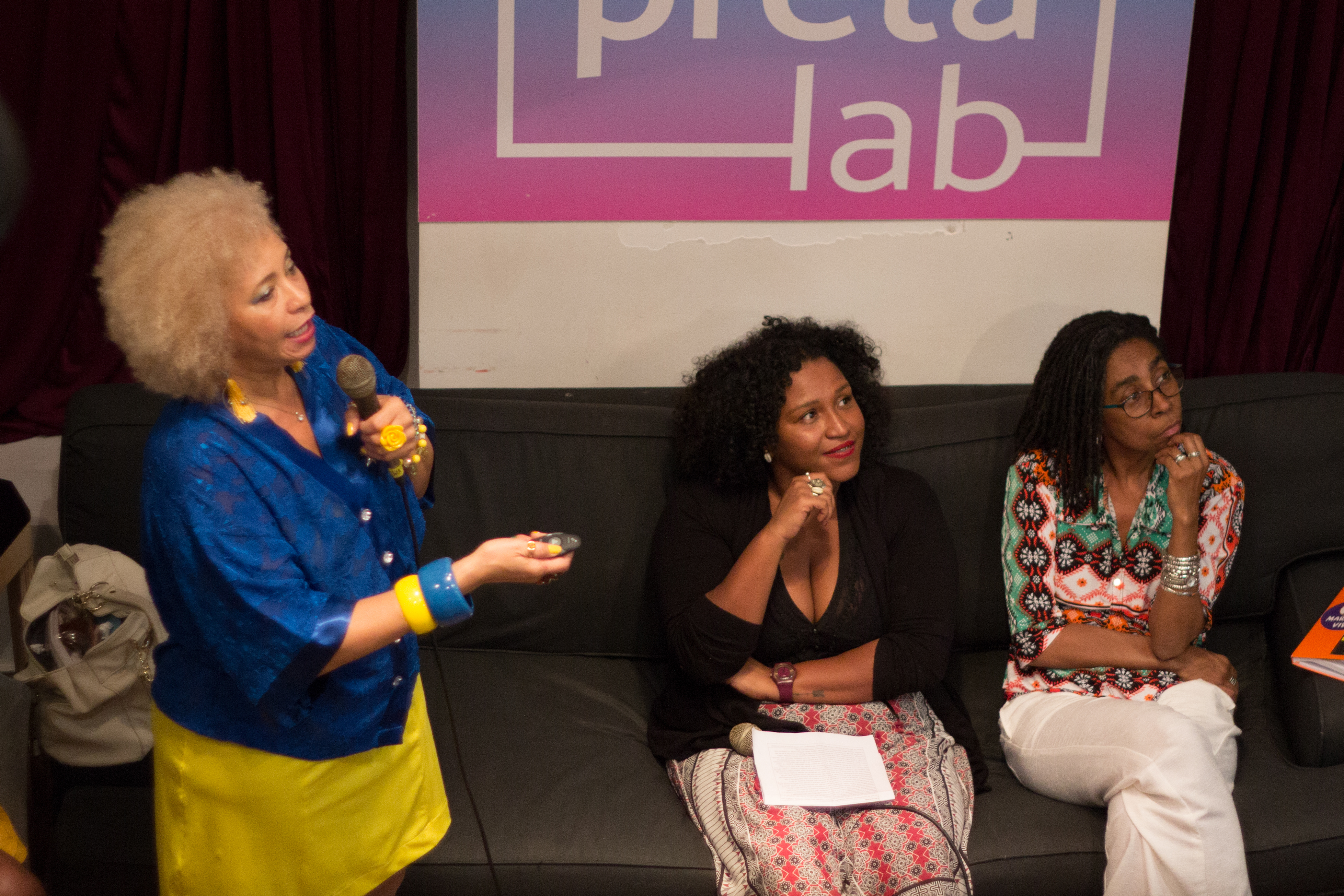 Prof Sonia Guimarães is a Brazilian Professor of Physics at the Instituto Tecnológico de Aeronáutica is standing. and Silvana BahiaJurema Werneck of Amnesty are there. Gabriele Roza too